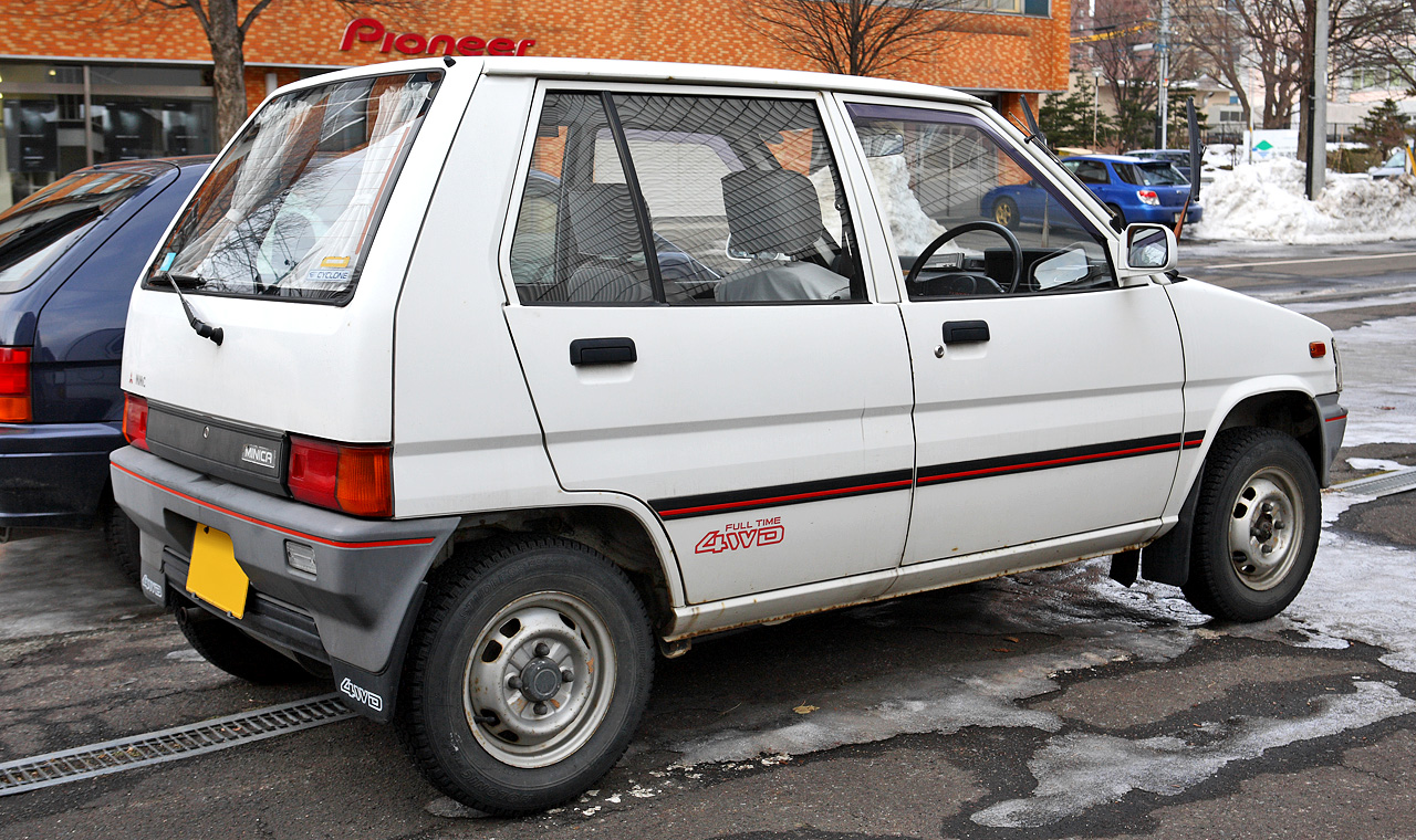 5th generation Mitsubishi Minica 4WD